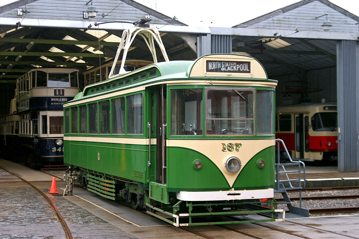 Preserved Blackpool Pantograph tram No 167 at the Crich tramway Museum. This group of trams only used pantographs from 1928 (when new) until 1933, but retained the name "Pantograph cars" as a nickname. The pantographs were replaced by trolley poles.